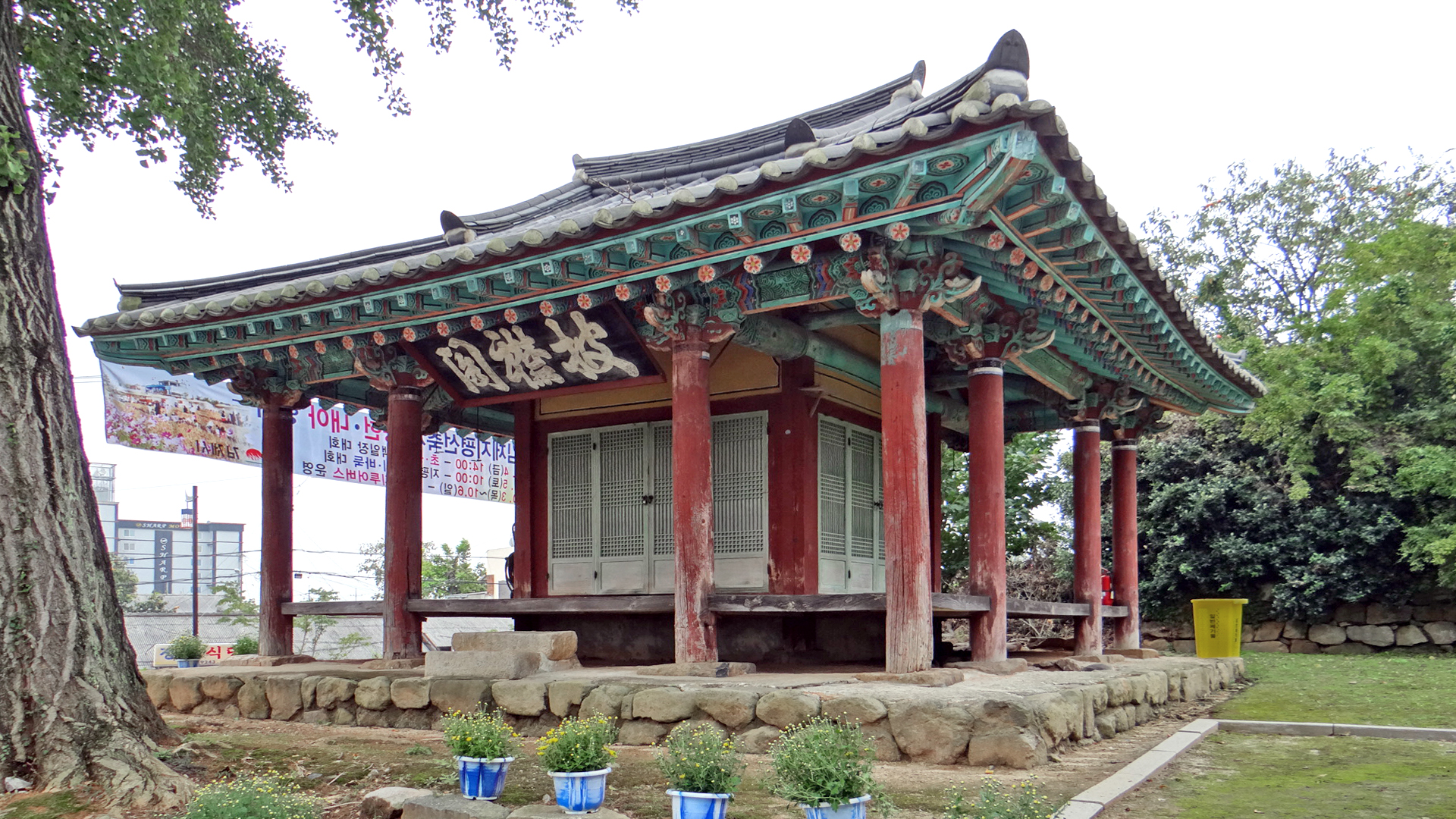 Gimje Dongheon (town magistrate's office) is a traditional Joseon Era Korean style building built in 1667 used as the town office from the period of imperialist Japan until the early 1960's. Noteworthy as the only Dongheon currently surviving with Naedongheon (magistrate's quarters), this building had been left abandoned for a long period, but now has been restored several times in recent years. Historic Relic #482.